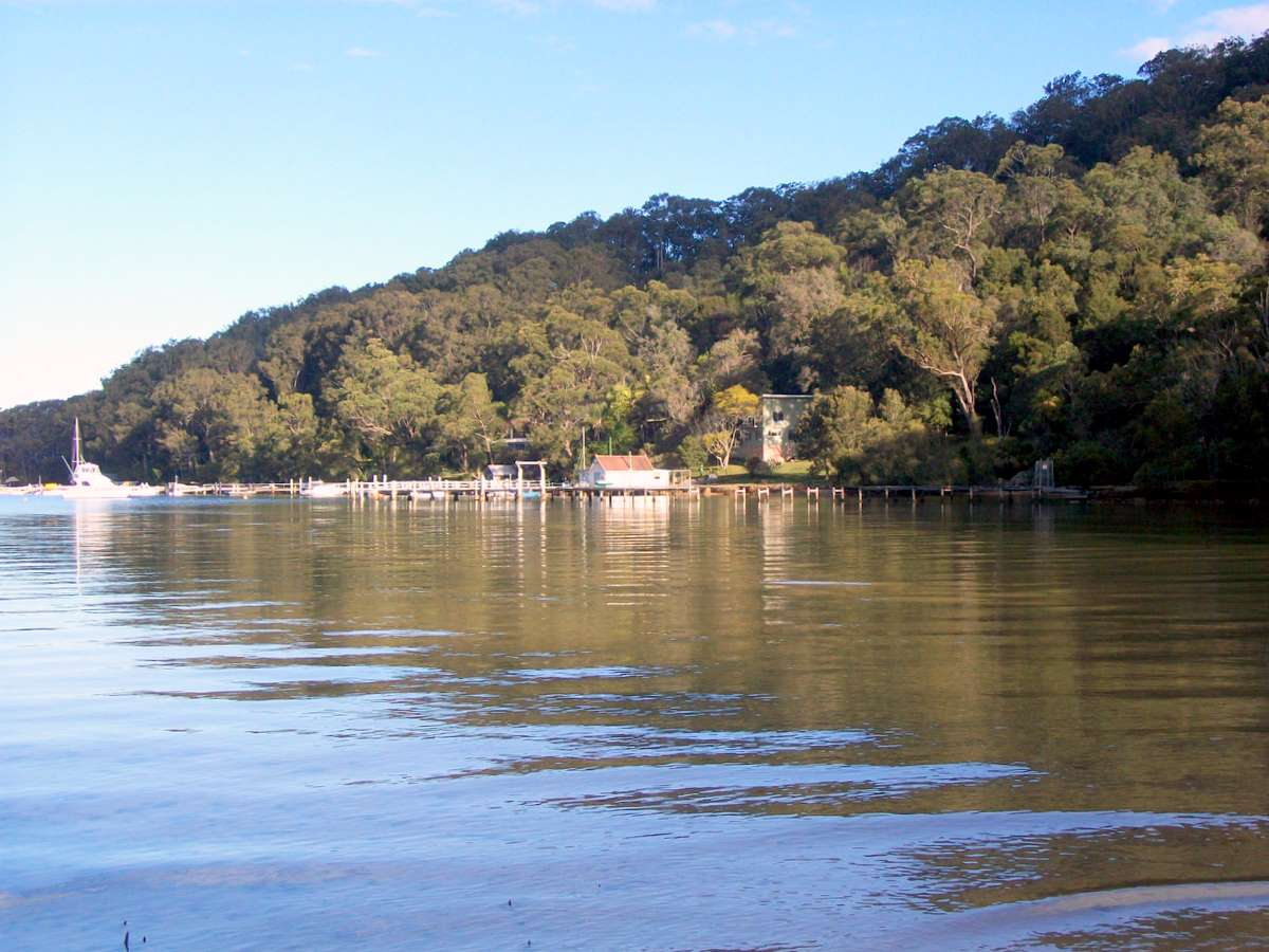 Morning Bay, photographed from the mangroves at the head of the bay